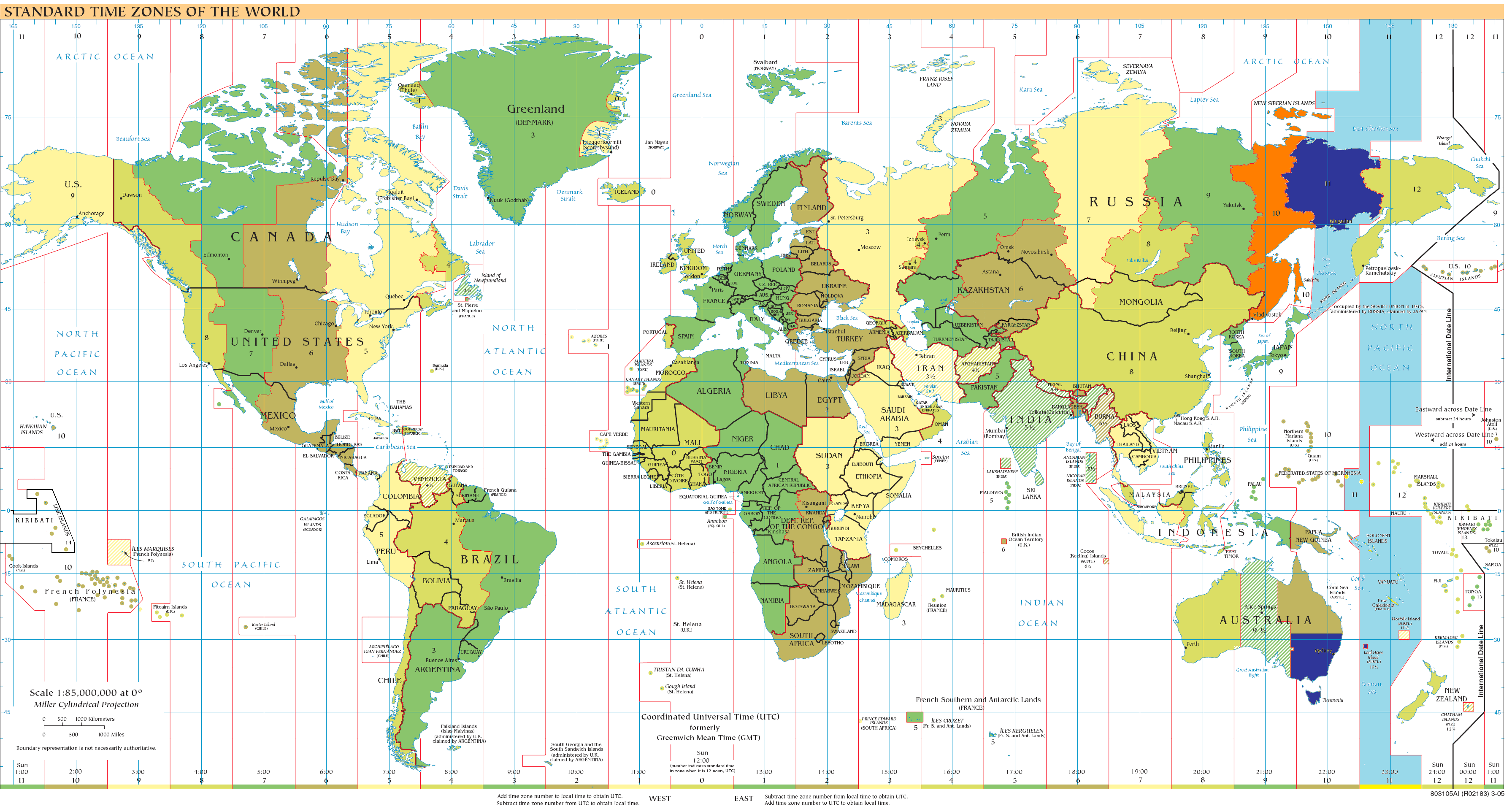 Copy of Timezones2008.png Edited to show UTC+11 Light Blue - UTC+11 Sea areas Dark Blue - UTC+11 Northern Hemisphere Winter / Southern Summer Orange - UTC+11 Southern Hemisphere Winter / Northern Summer Yellow - UTC+11 all year round